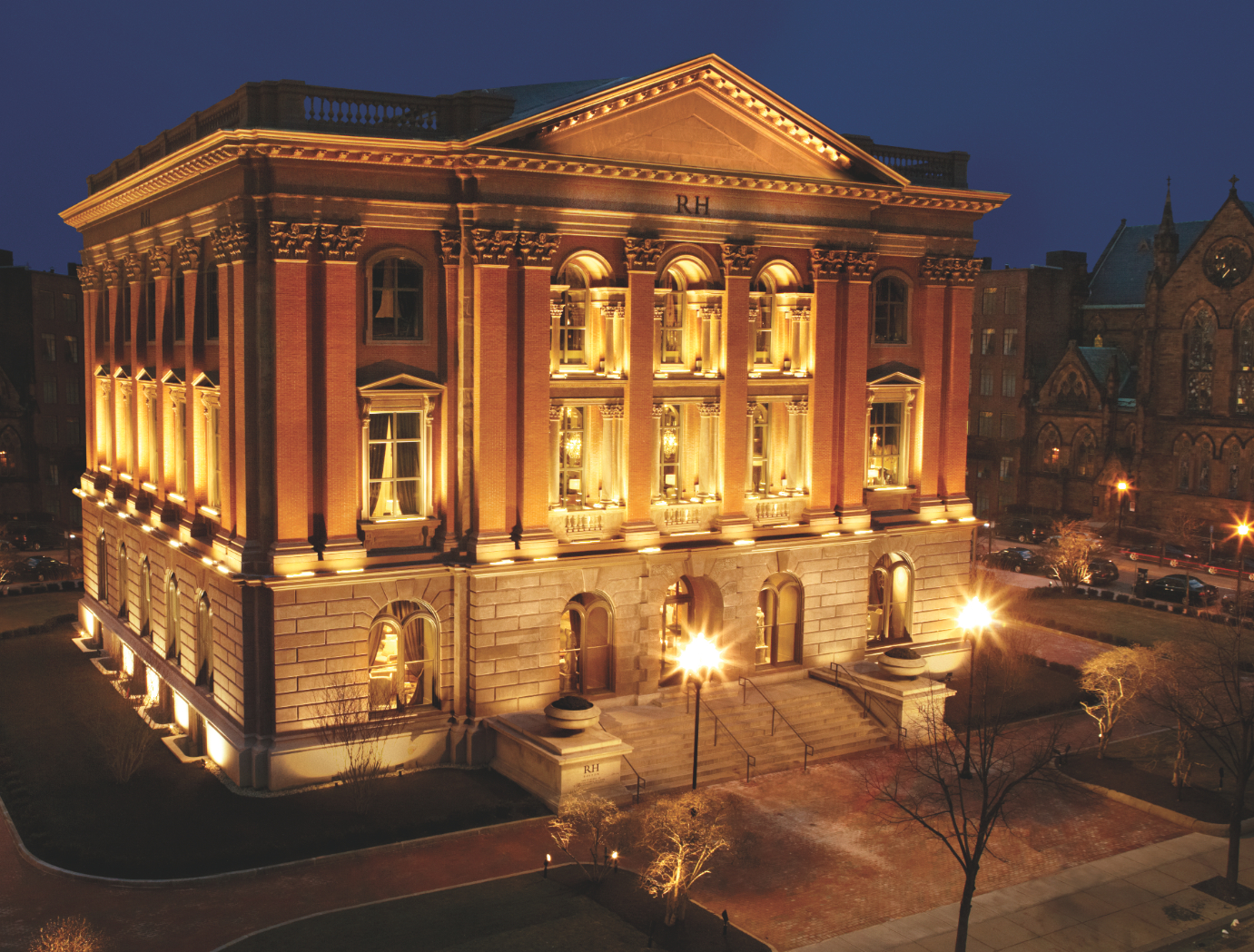 Exterior of the Boston Premises of Restoration Hardware